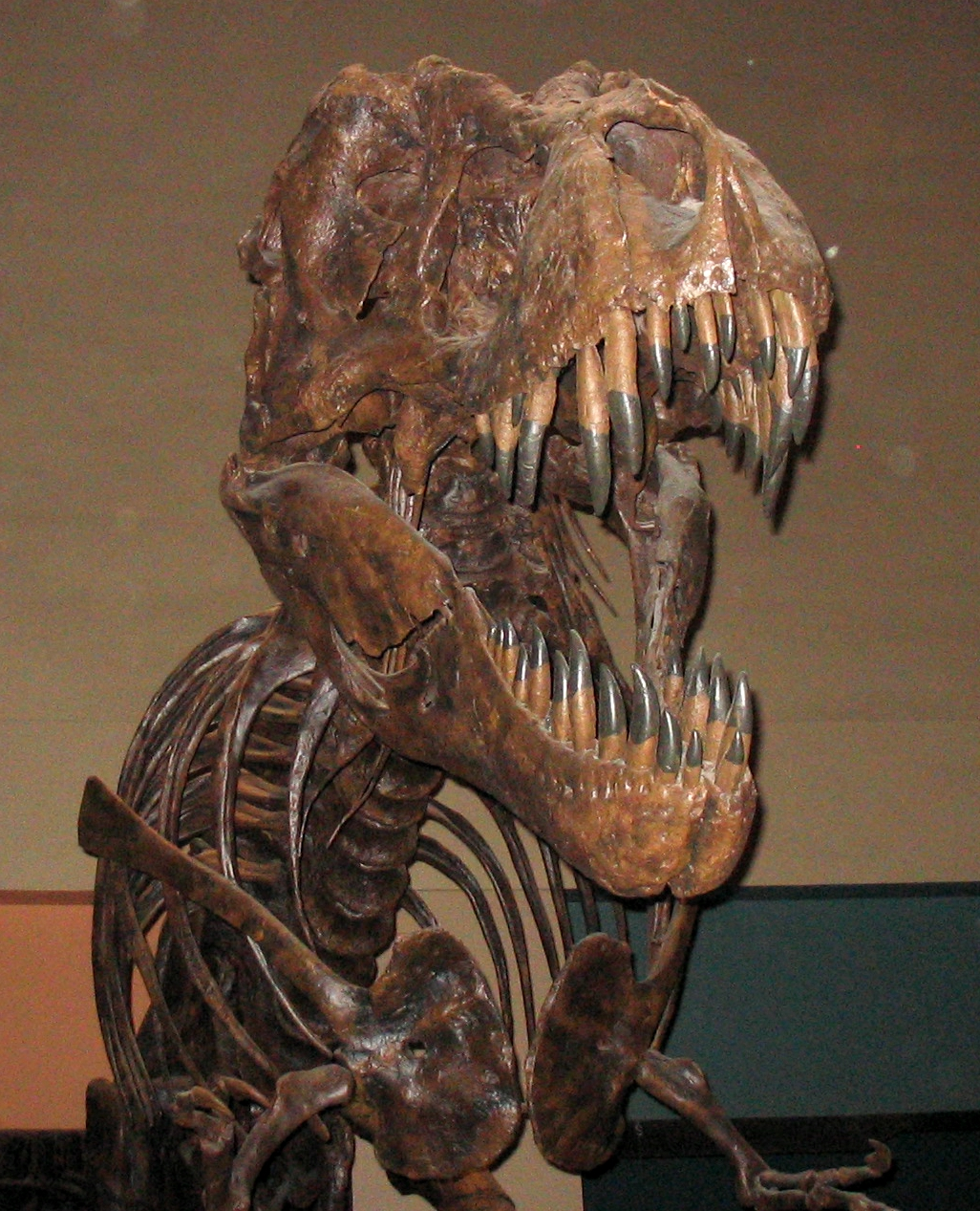 Tyrannosaurus rex skeleton at the Smithsonian museum of Natural History. 'retouched' version used on wikipedia here